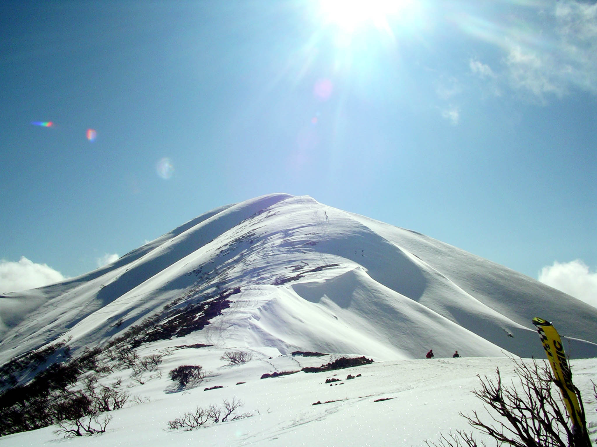 Mount Feathertop taken from the saddle to the South